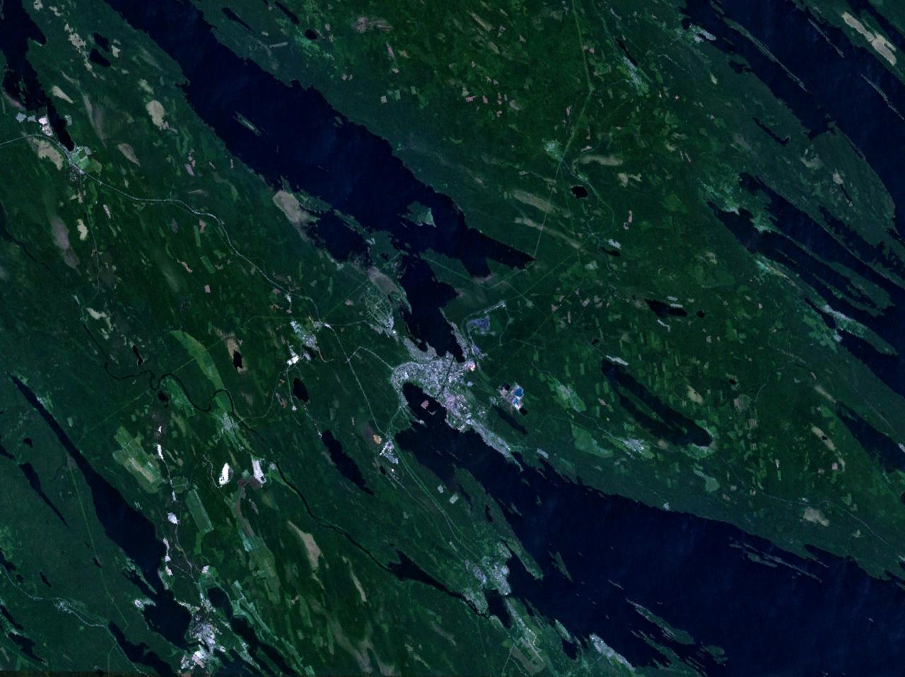 Kondopoga, Russia. Satellite view.